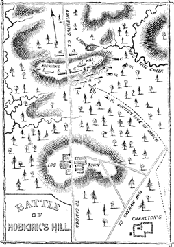 Battle of Hobkirk's Hill Diagram.